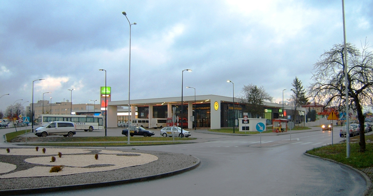 Bus station in Zamość rebuilt in 2015 into Integrated Communication Centre with shopping mall "HopStop Zamość Hrubieszowska"